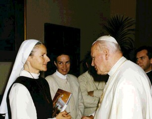 Sr Emmanuel Visit the Pope. Visit